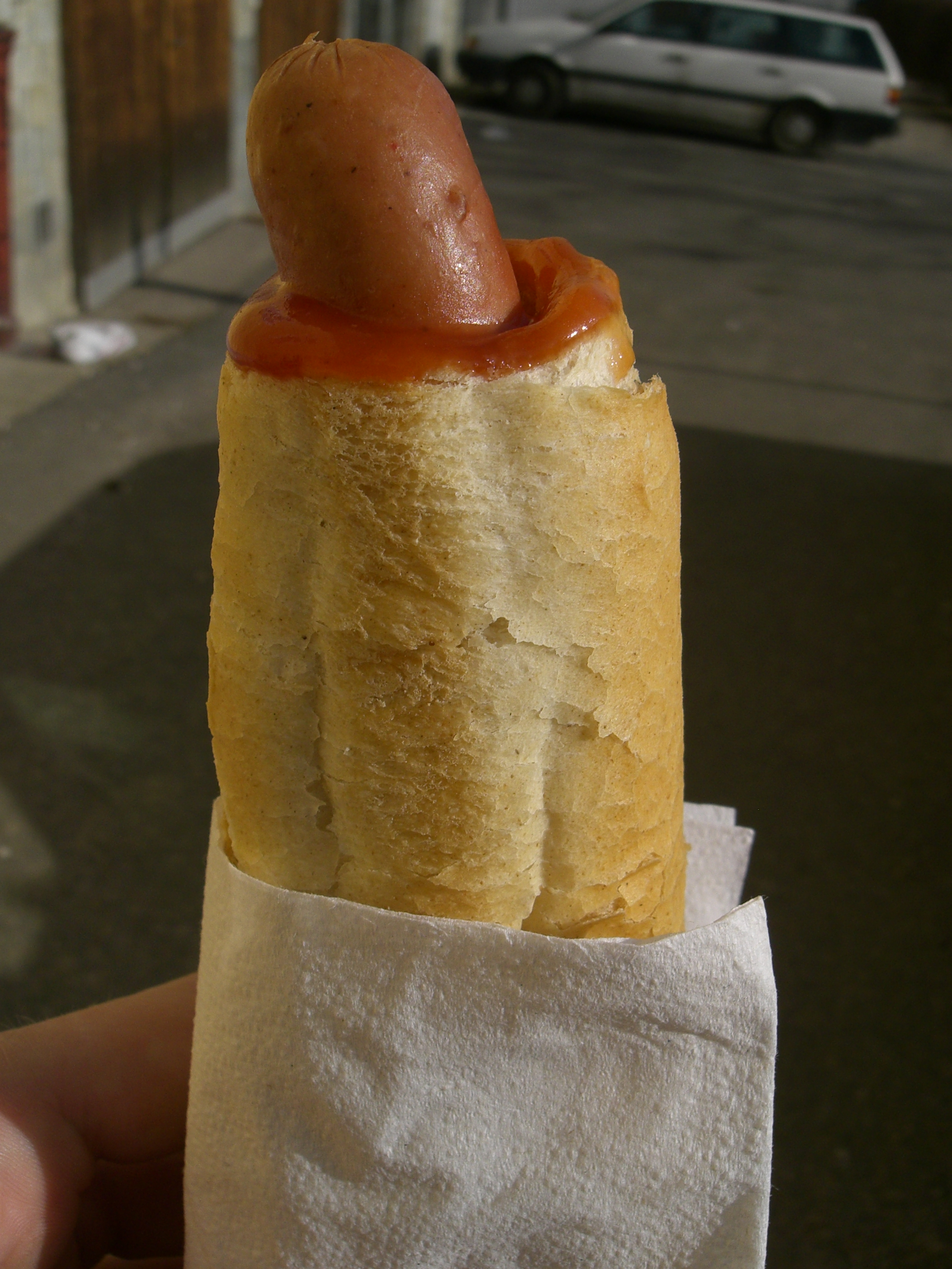 Czeck kind of hotdog